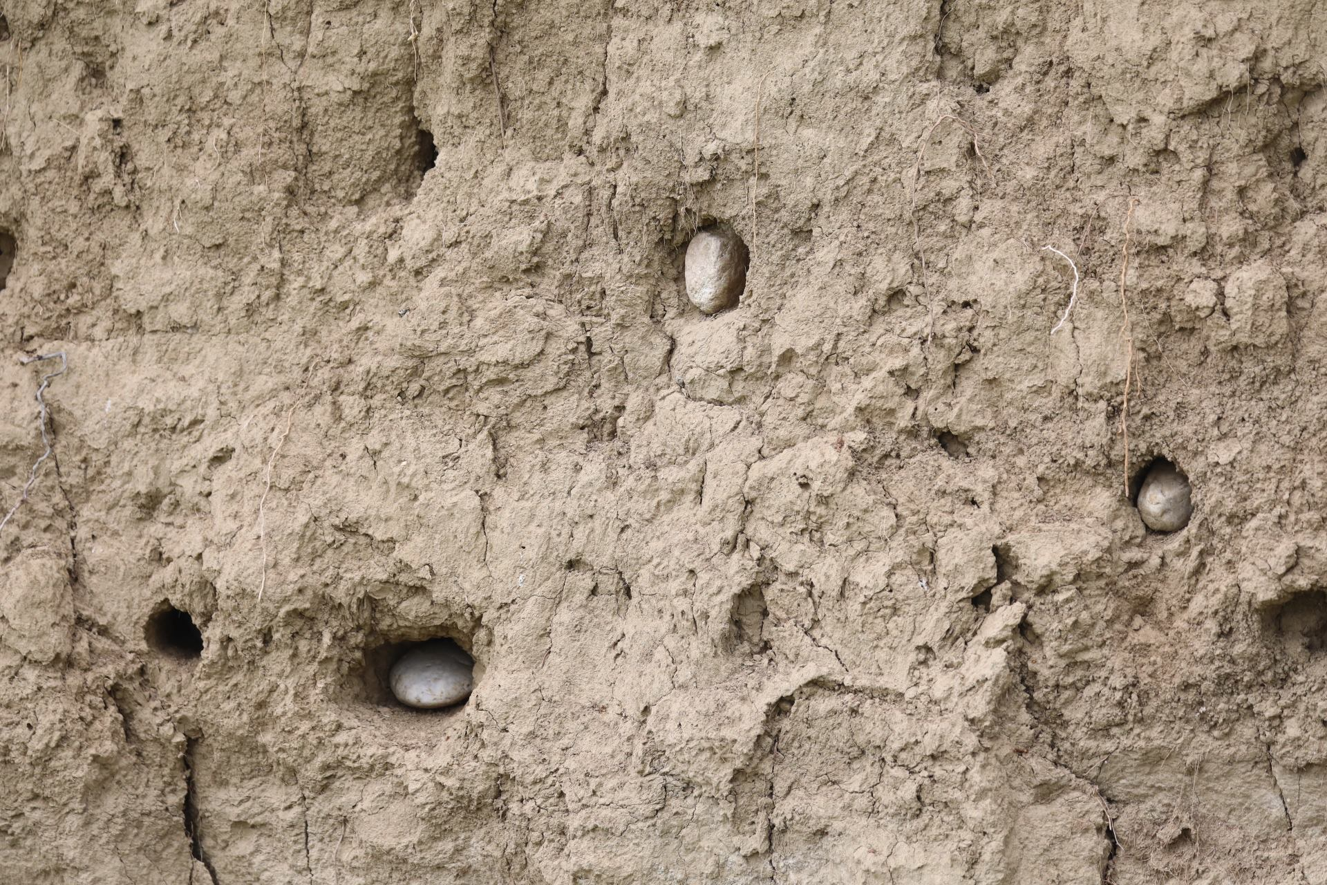 Bee-Eaters (Merops apiaster) colony vandalized by beekeepers. They blocked with stones the entrances into the galleries.